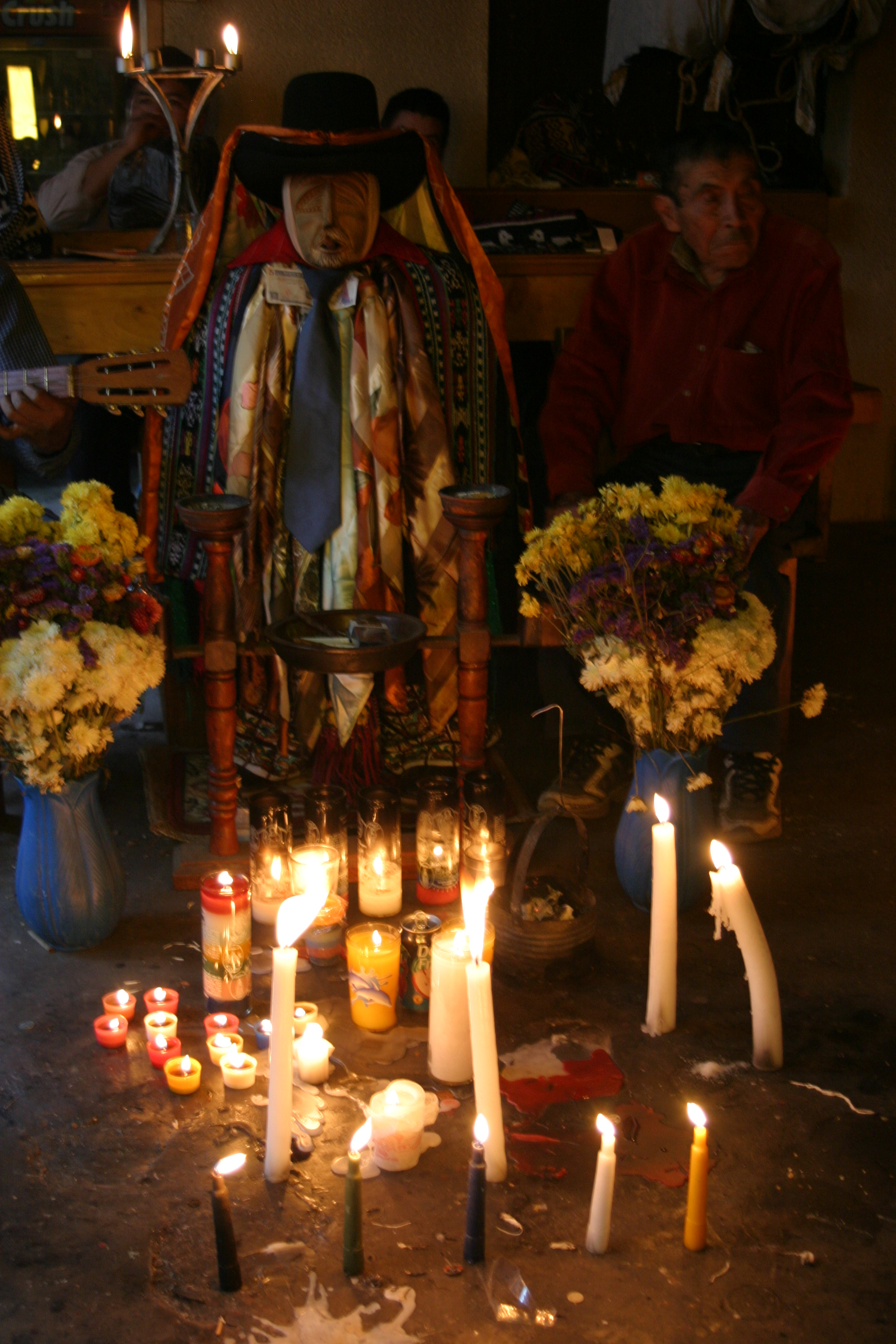 The saint Maximón, at his shrine at Lago Atitlán with candles.